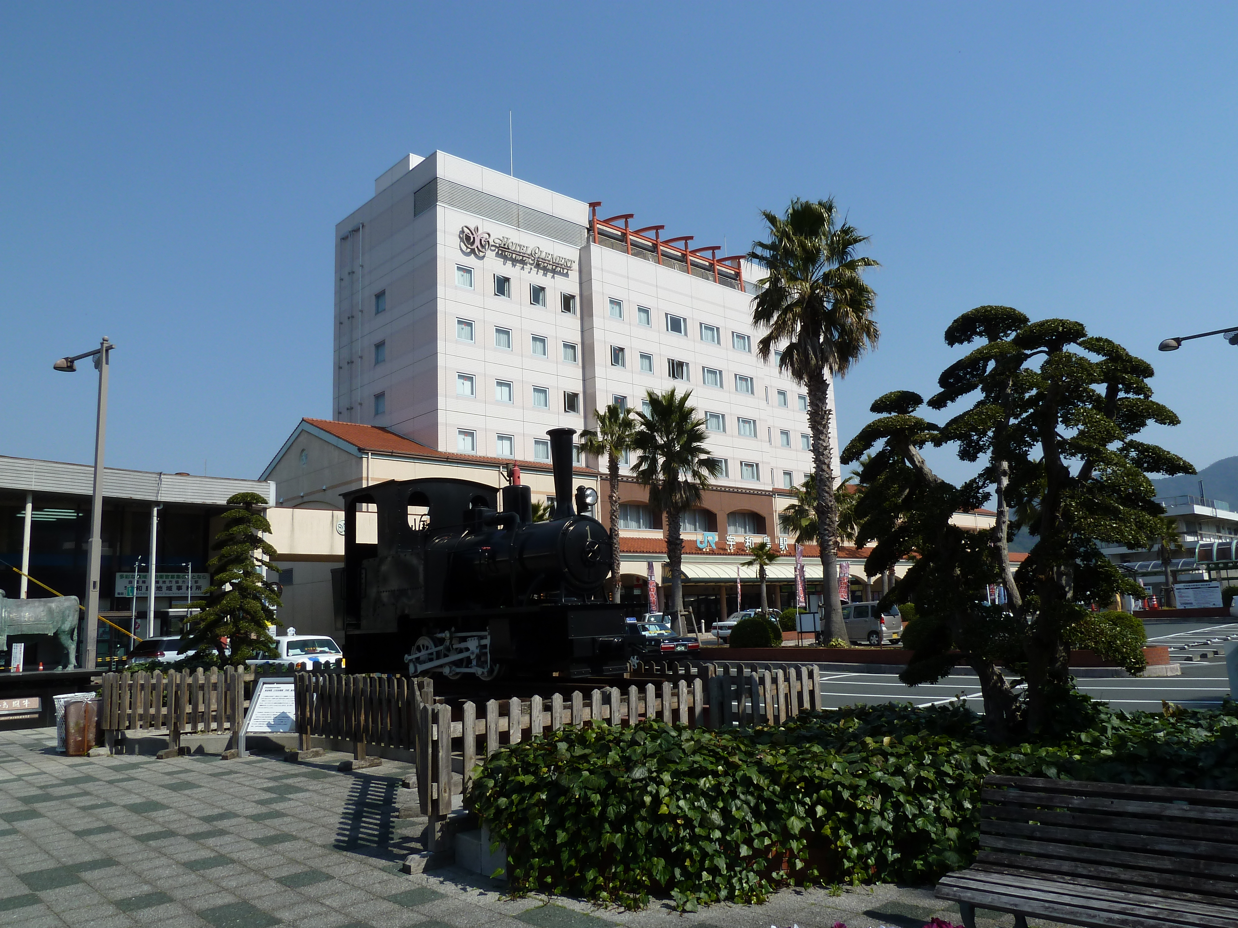 宇和島駅舎